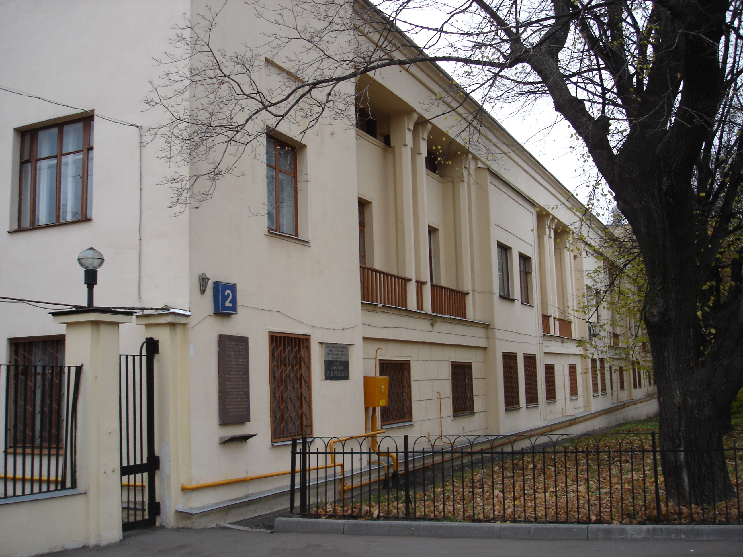 Landau Institute for Theoretical Physics, Moscow, Russia. View on the building from Kosygina street